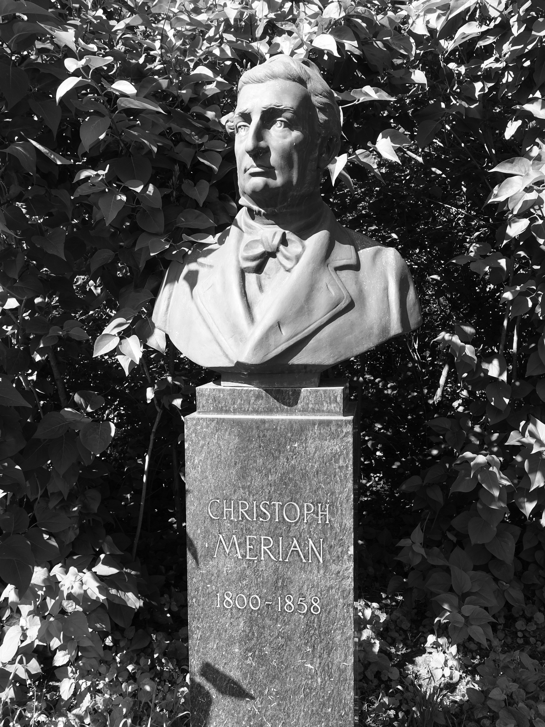 Christoph Merian ( 1800-1858) Büste, Garten des Sommercasino, Münchensteinerstrasse 1, Basel